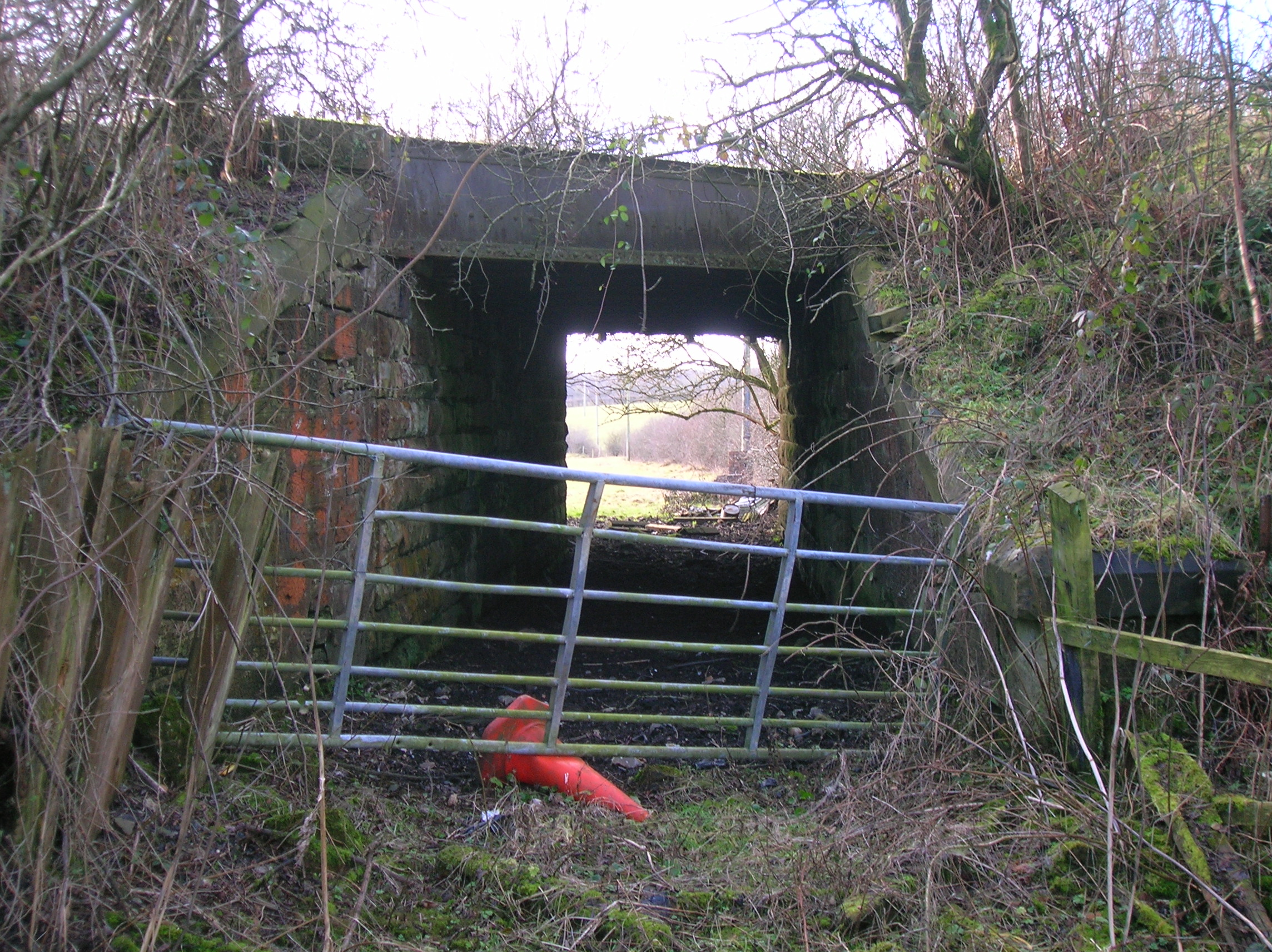 Railway overbridge at the site of the old Scotch gauge Doura waggonway leading to the Doura coalmines, Doura, North Ayrshire, Scotland.